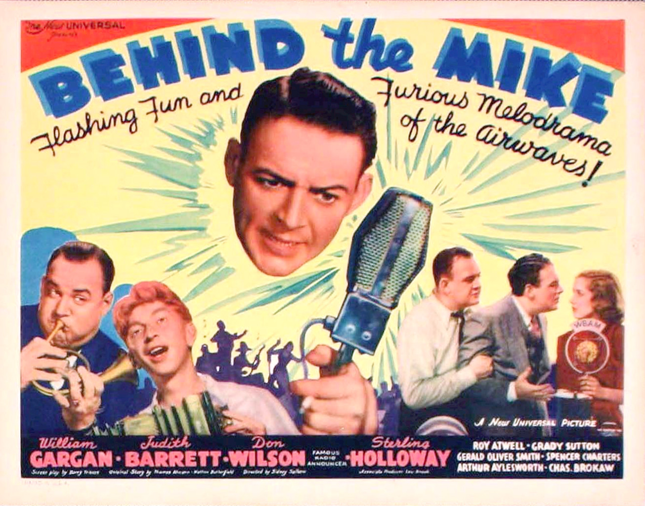 Lobby card for the American film Behind the Mike (1937).